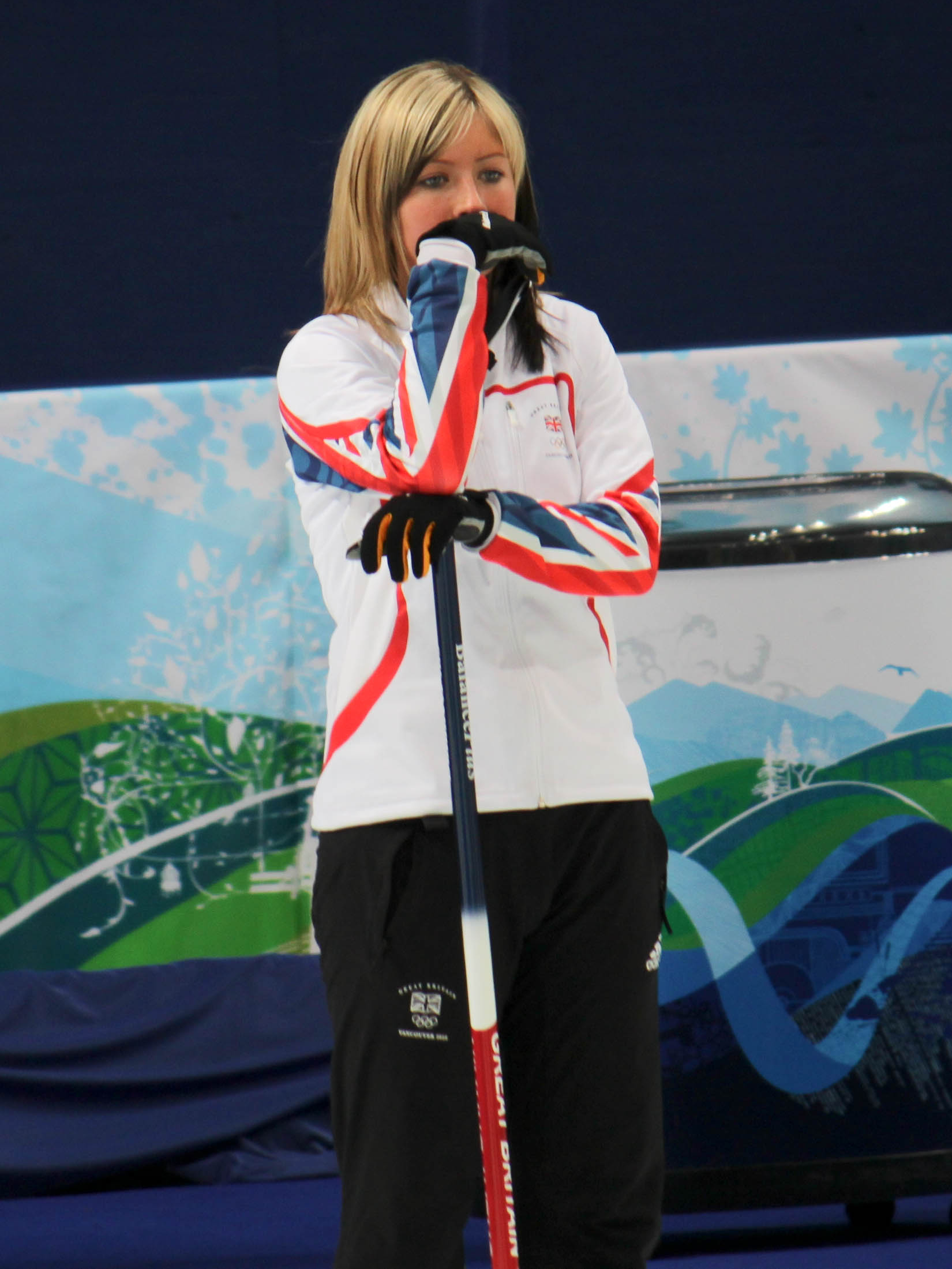 Scottish curler Eve Muirhead (born 1990) at the 2010 Winter Olympics in Vancouver